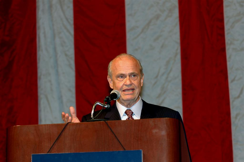 Fred Thompson Addresses the Midwest Leadership Coalition